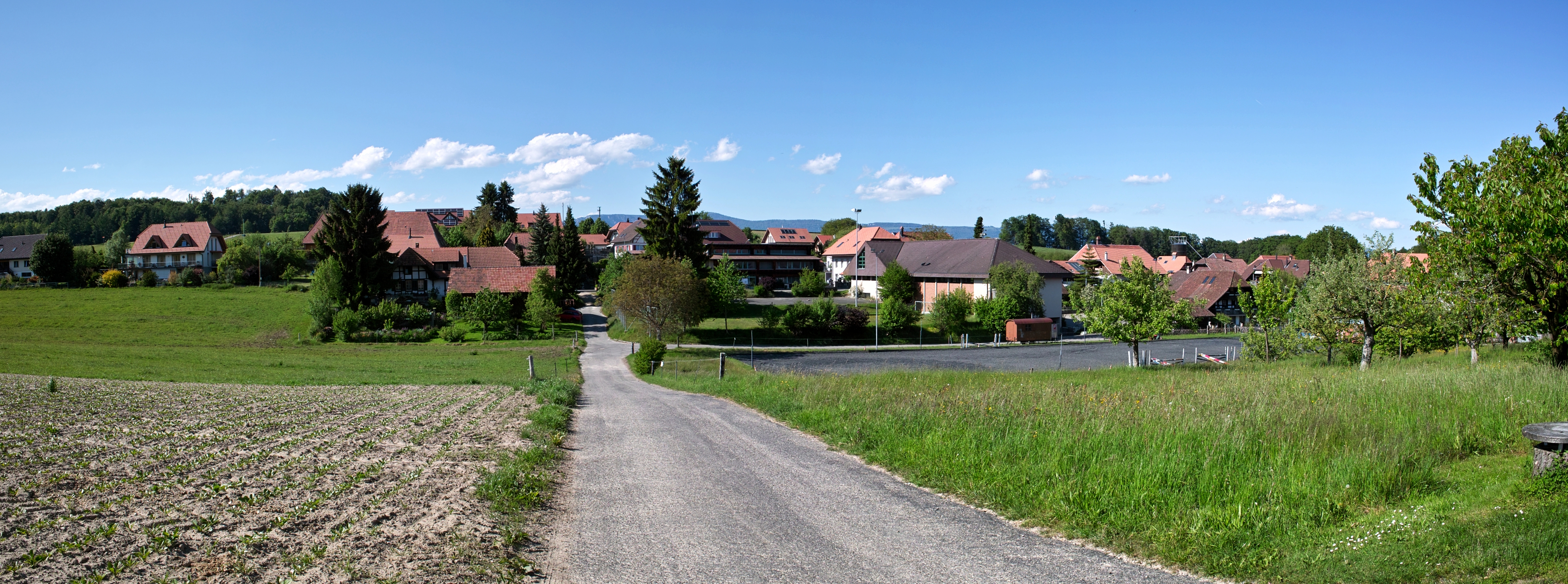 Panorama of the village of Aetigkofen in the municipality of Buchegg, canton of Solothurn, Switzerland.